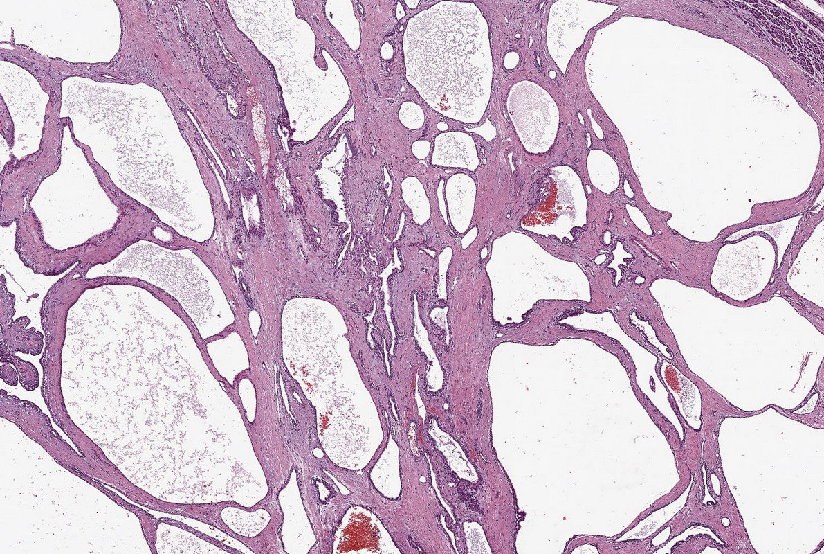 pancreatic serous cystadenoma, Histology